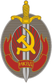 NKVD (KGB) of the USSR, Honored employee badge